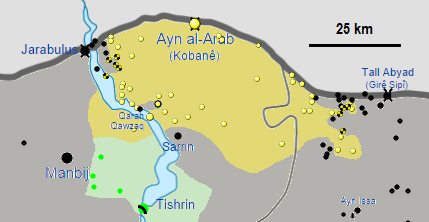 Controlled by the Syrian Arab Republic (SAA and allies) Controlled by the Syrian Salvation Government (HTS and allies) Controlled by the Syrian Interim Government (SNA and allies) Controlled by the Federation of Northern Syria (SDF) Controlled by the Islamic State of Iraq and the Levant (ISIL) Controlled by other factions of the Syrian Opposition Joint control between SAA & SDF The disputed frontline between the forces Observation post of the Turkish Armed Forces In the respective colours: Stable mixed control Rural presence Contested Strategic hill Oilfield/Gasfield Military base or checkpoint Airport/Air base (plane) Heliport/Helicopter base Major port or naval base Border post Dam Industrial complex